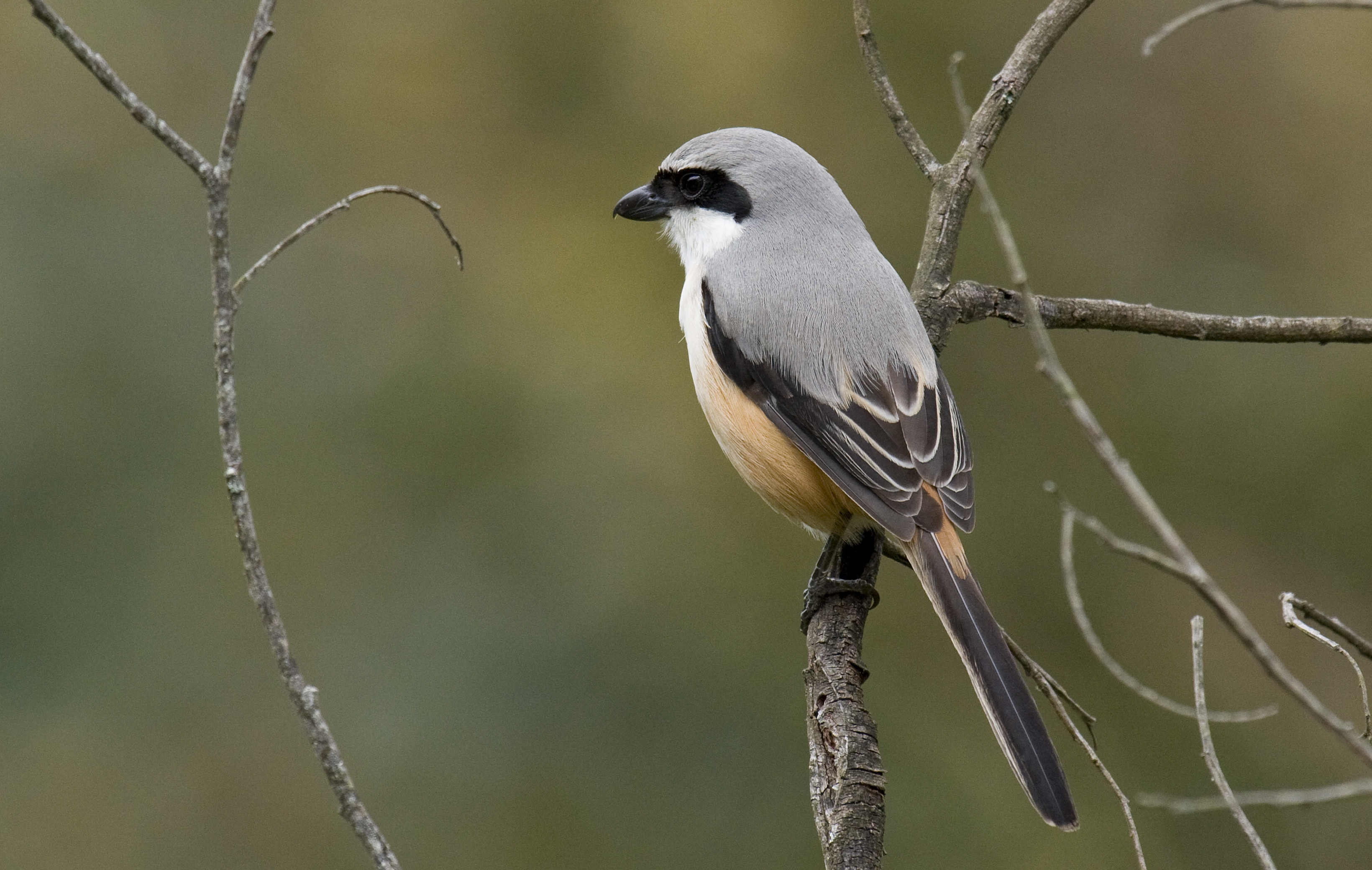 Rufous-backed Shrike or Long-tailed Shrike (Lanius schach caniceps).